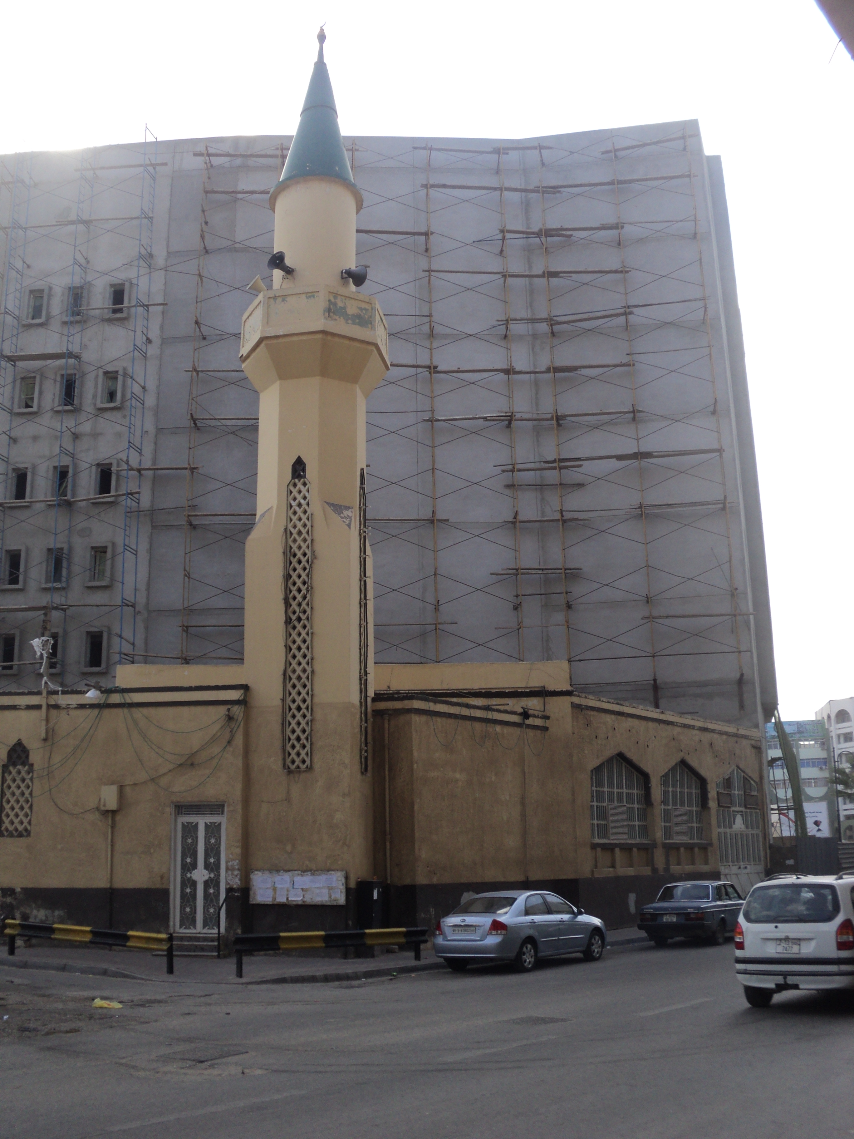 A mosque in Berka neighborhood (Jaafar as-Sadiq) Benghazi, Libya. This mosque is popularly known as Hadiya Mosque (جامع هدية)